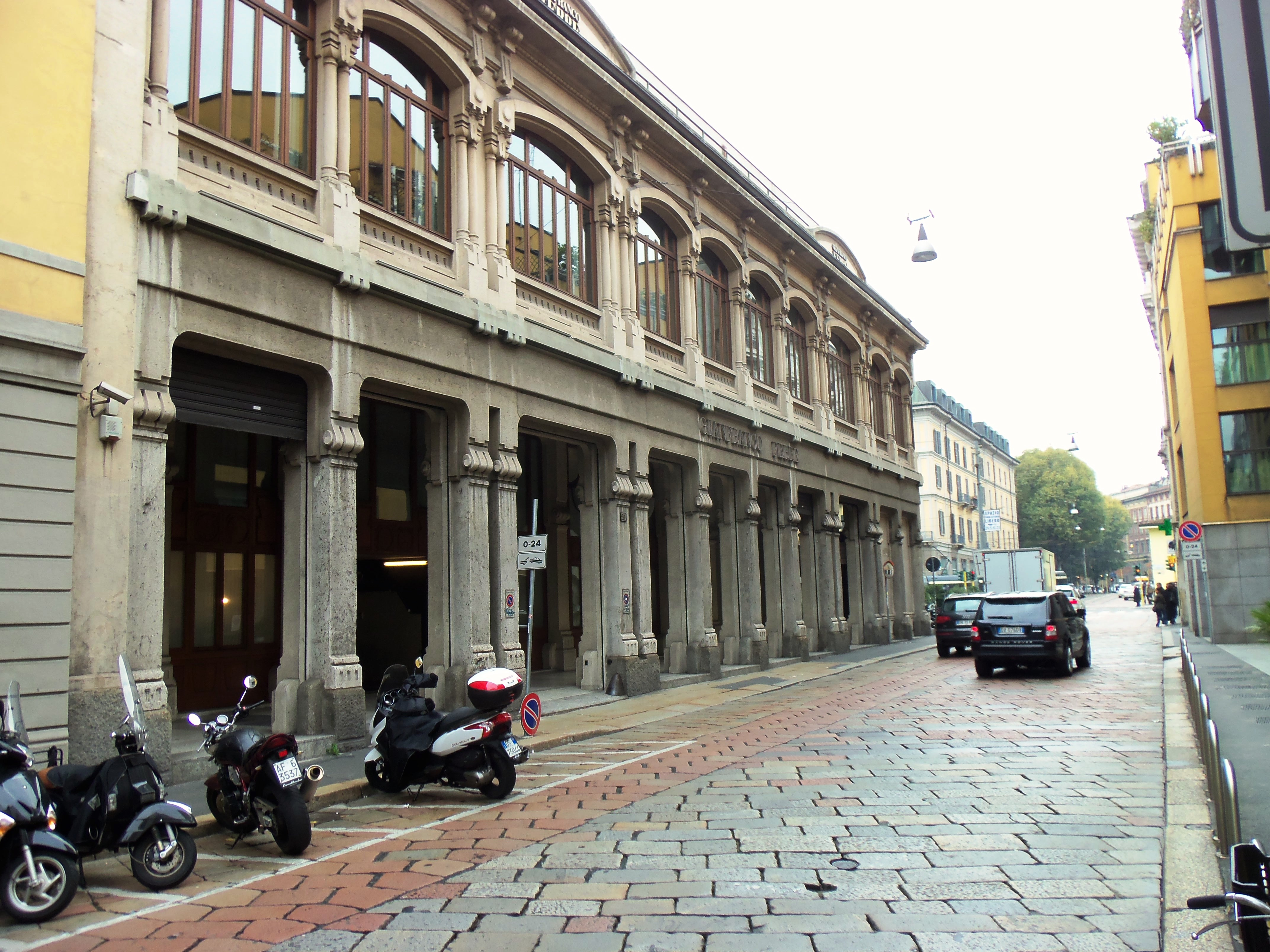 Milano, via Pontaccio